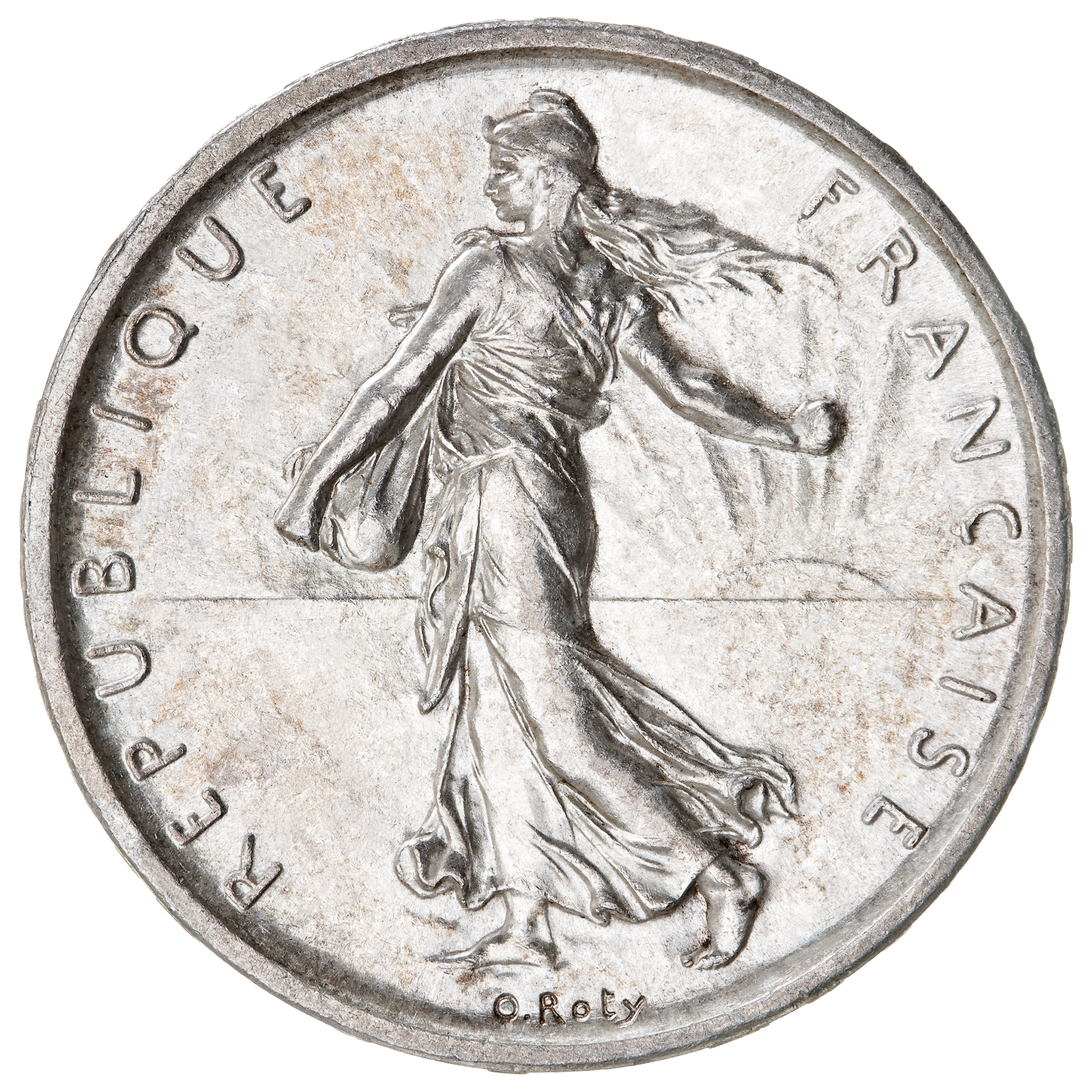 Obverse of the 5 French francs silver coin, 1960 (F.340/4). Silver, diameter 29 mm, 12 g.